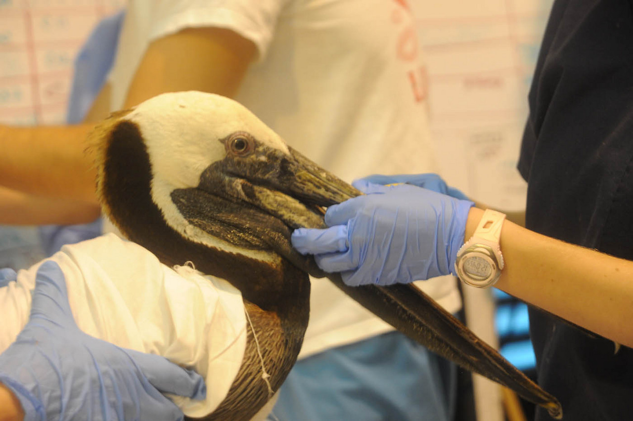 Birds are cleaned and prepared for release at Fort Jackson Wildlife Rehabilitation Center in Fort Jackson, La. Tami Heilemann-DOI